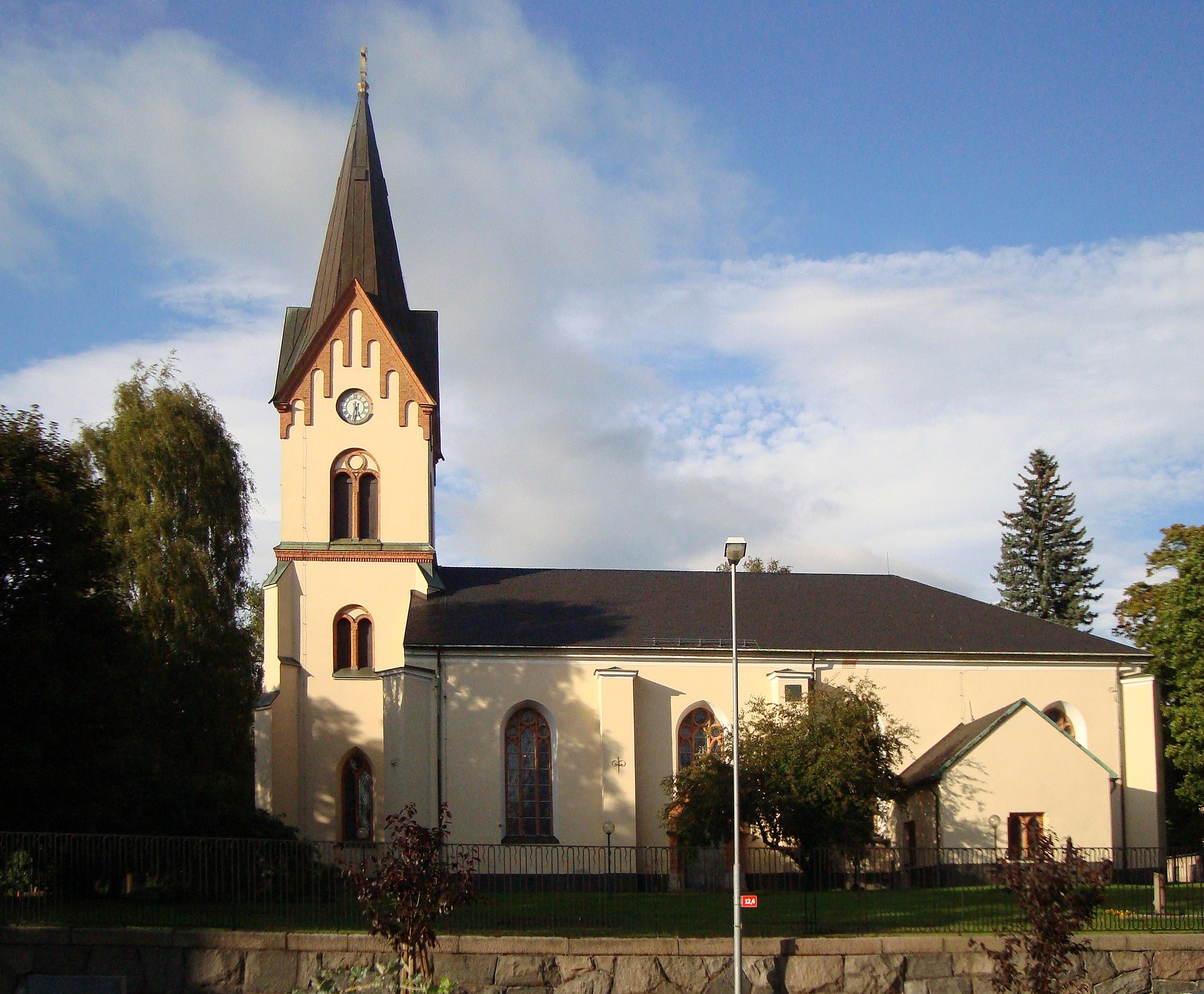 Church of Avesta, Sweden